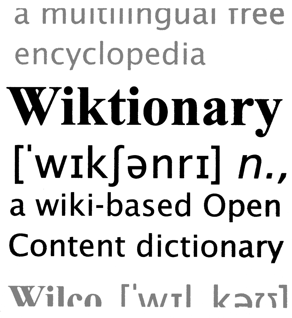 The proposed English Wiktionary logo. This image is used on all Wikimedia portal pages, such as and This use does not show up in the "File usage" sections below.This file has been protected to prevent vandalism.